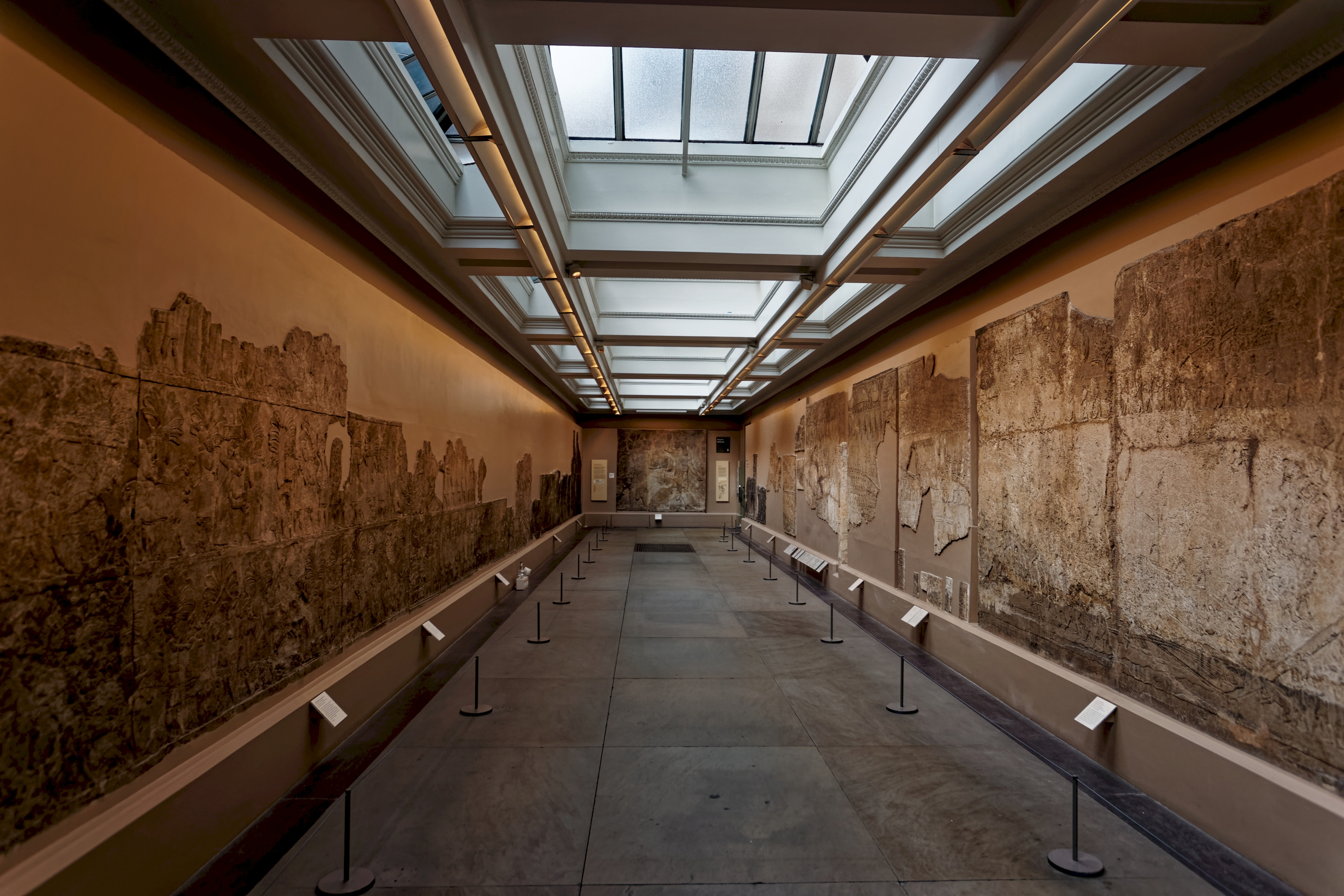 London - Great Russell Street - British Museum - Assyria: Nineveh - View NW